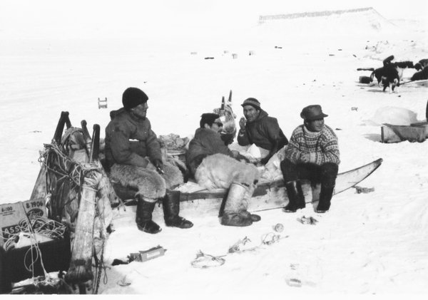 While rummaging through some old stuff for more of my college photography, I came across a couple of pics I had taken while in the Air Force. Not good pictures, but interesting, perhaps. This is a group of Eskimos relaxing on a sled, as their dogs relax in the background. Deep in the background is Mount Dundas. There were always a few Eskimos around the base, and the Air Force put some of them to work to get at a B-52 that crashed on the icecap. The sleds were the only way to get to the crashsite